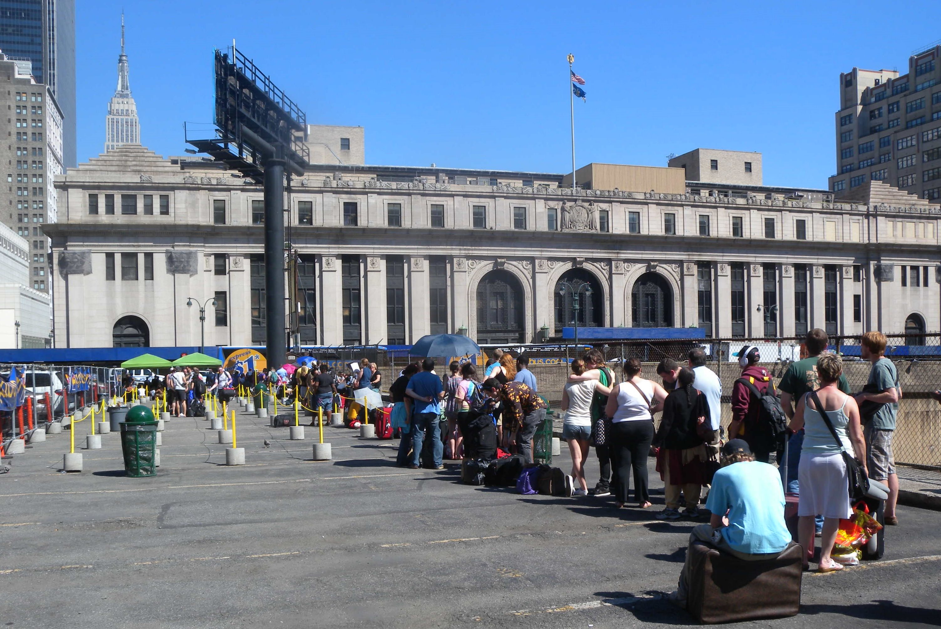 Looking southeast in Megabus loading area on a sunny afternoon.